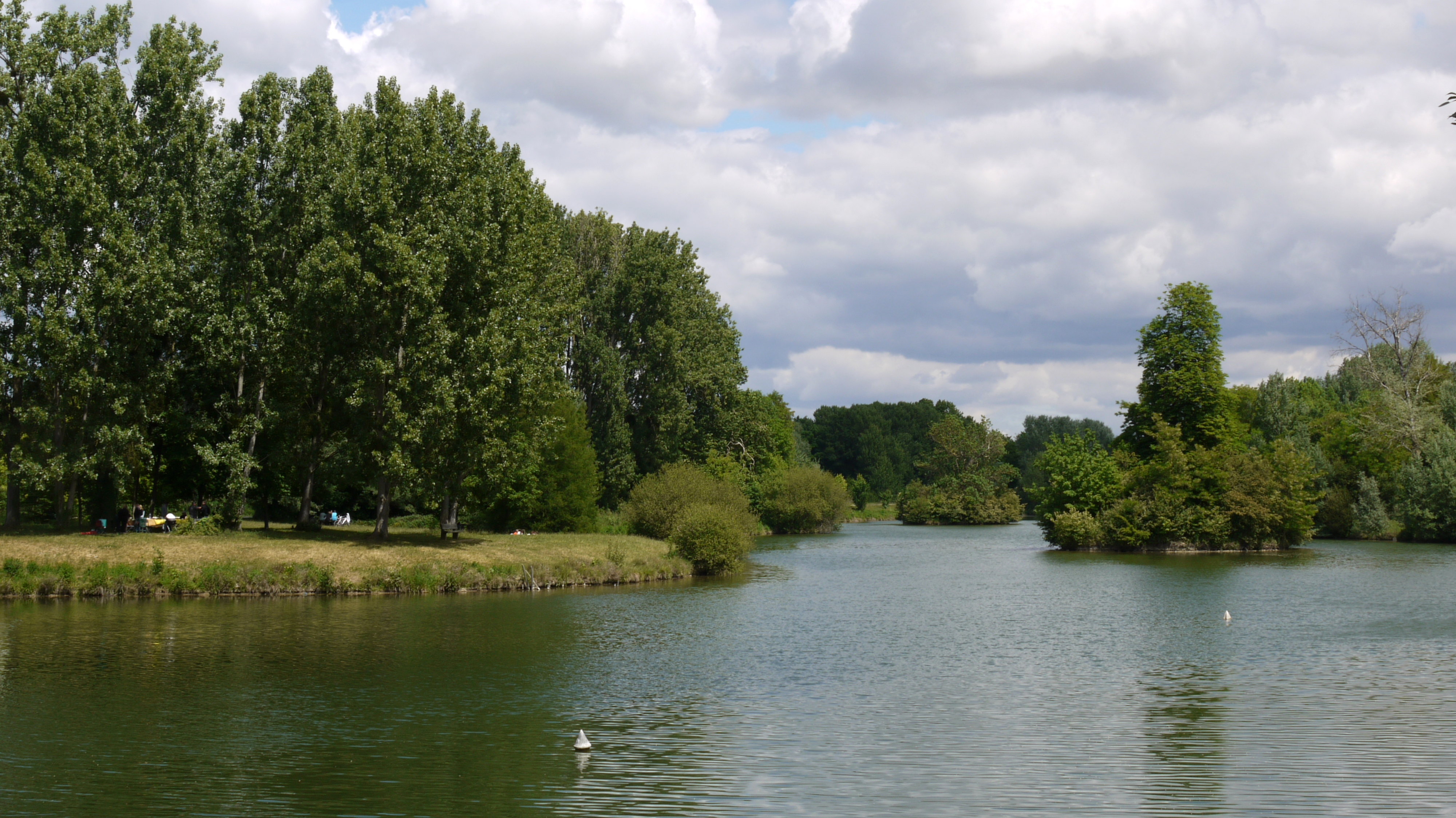 Bassin de Saint-Michel in the Orge valley , Saint-Michel sur Orge (France)